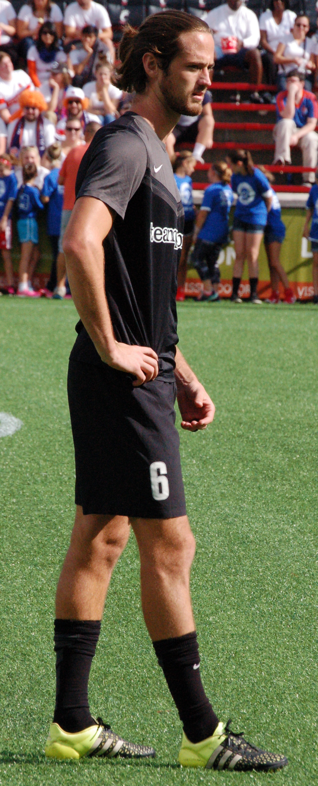 Shawn Ferguson Taken during a 2016 USL Playoffs Eastern Conference Quarterfinals match between FC Cincinnati and Charleston Battery at Nippert Stadium in Cincinnati on October 2, 2016.